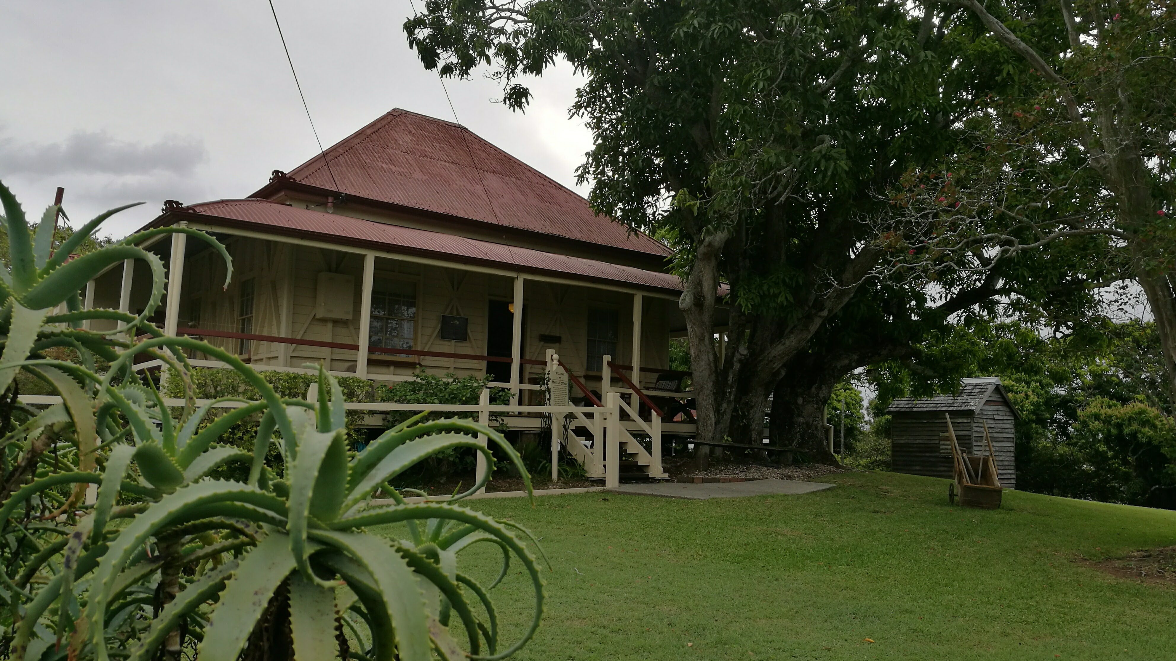 Mayes Cottage, April 2017